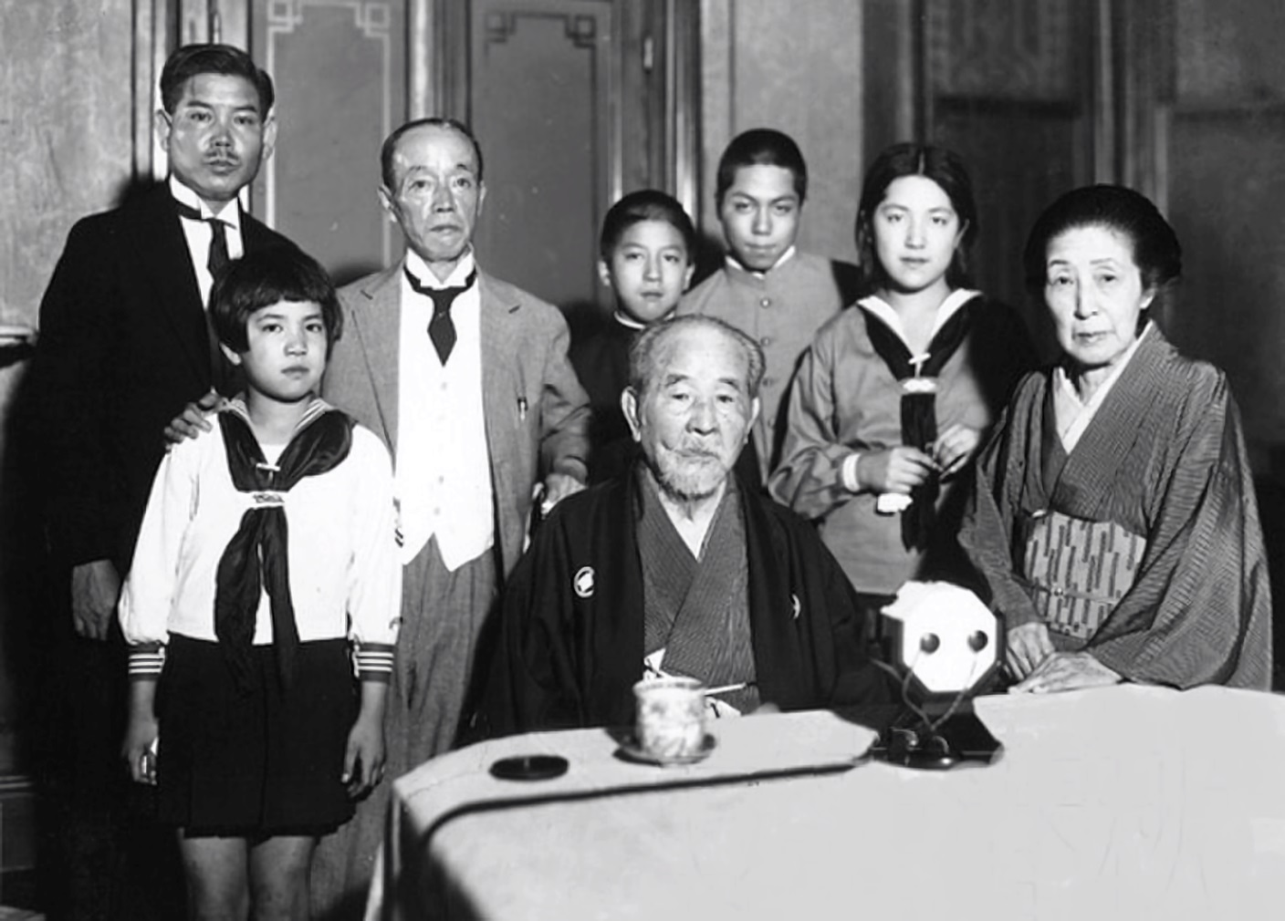 Eiichi Shibusawa (1840–1931)